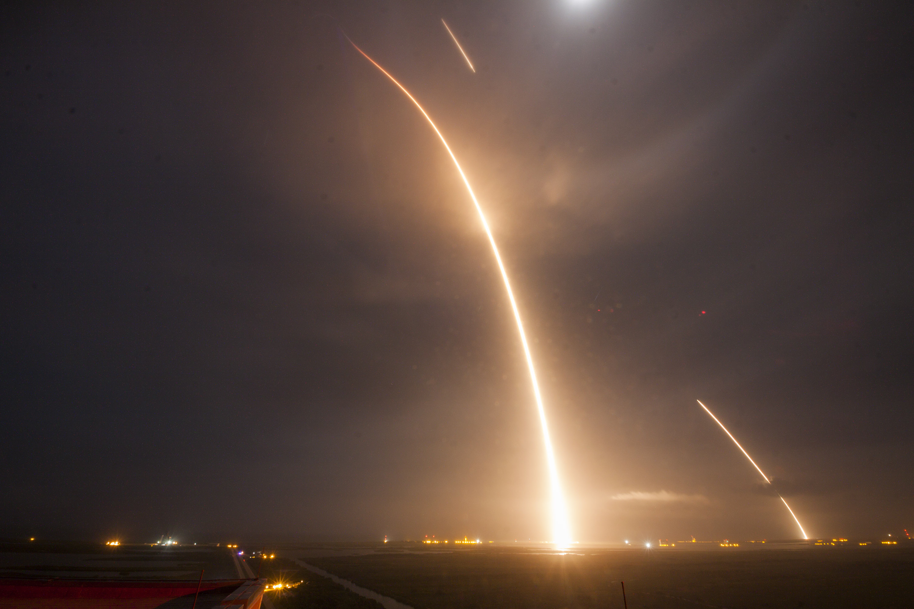 Launch, Re-entry, and Landing Burns